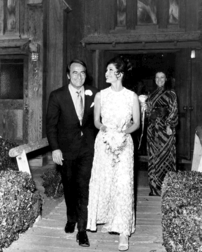 Publicity photo of John and Marjorie Beradino from the daytime drama General Hospital.